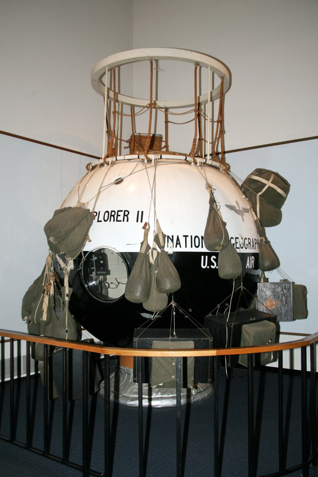 Explorer II gondola in the National Air and Space Museum. Launched on November 11, 1935, from the Stratobowl near Rapid City, South Dakota, Explorer II carried Captain Albert Stevens, Captain Orvil Anderson, and an assortment of instruments to a world record altitude of 22,066 kilometers (72,395 feet).